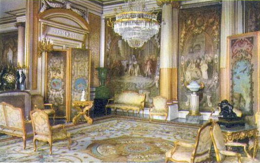 Postcard - audience chamber